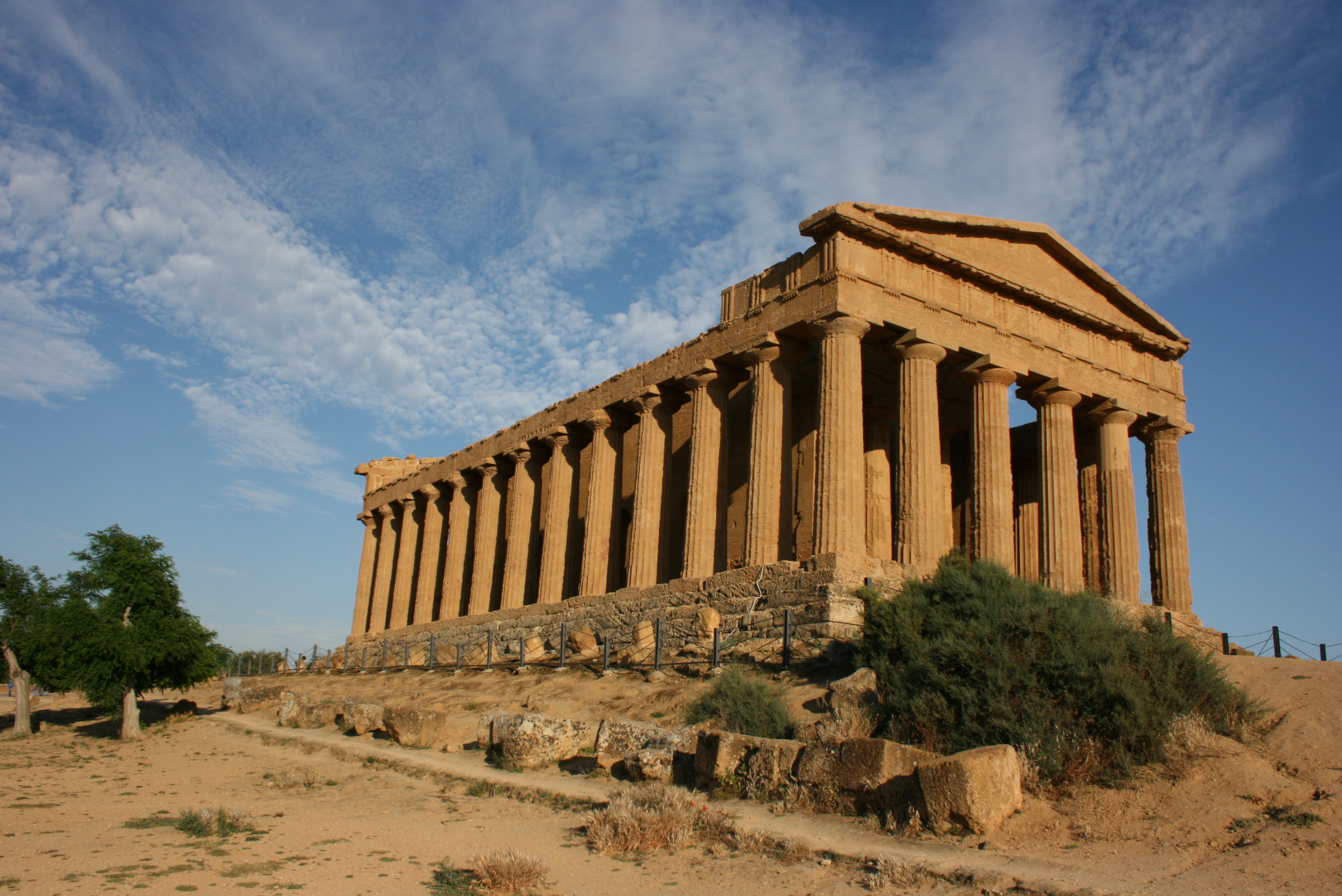 Agrigento (Sicily, Italy). Temple of Concordia.